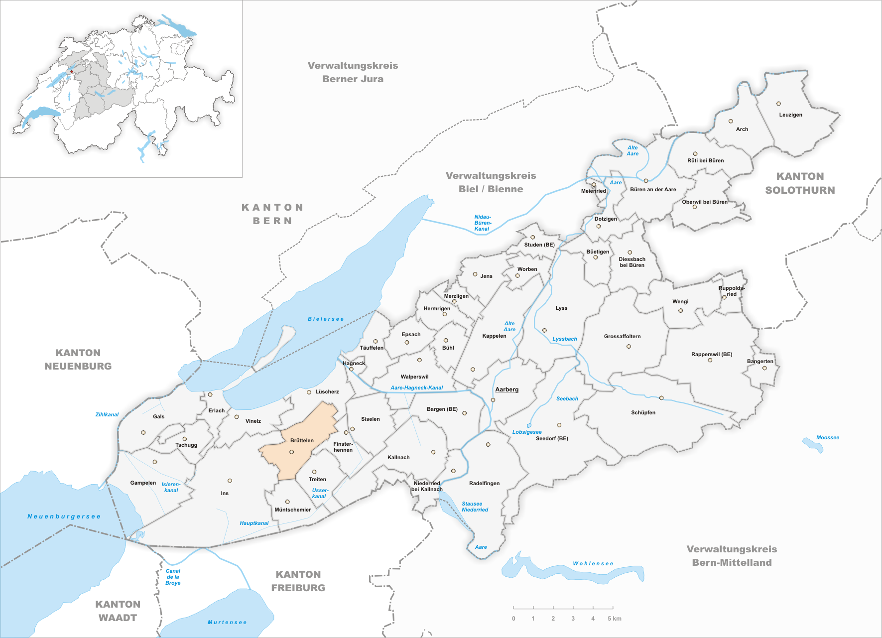 Municipality Brüttelen